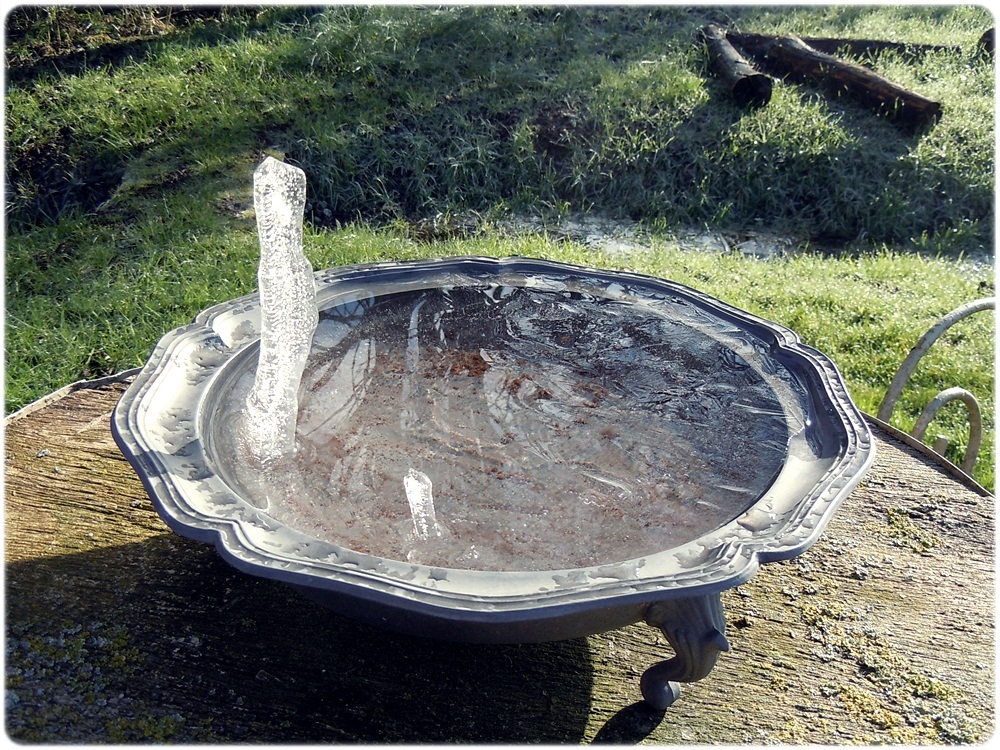 Ice spike found in a dish filled with frozen water, in the back yard.